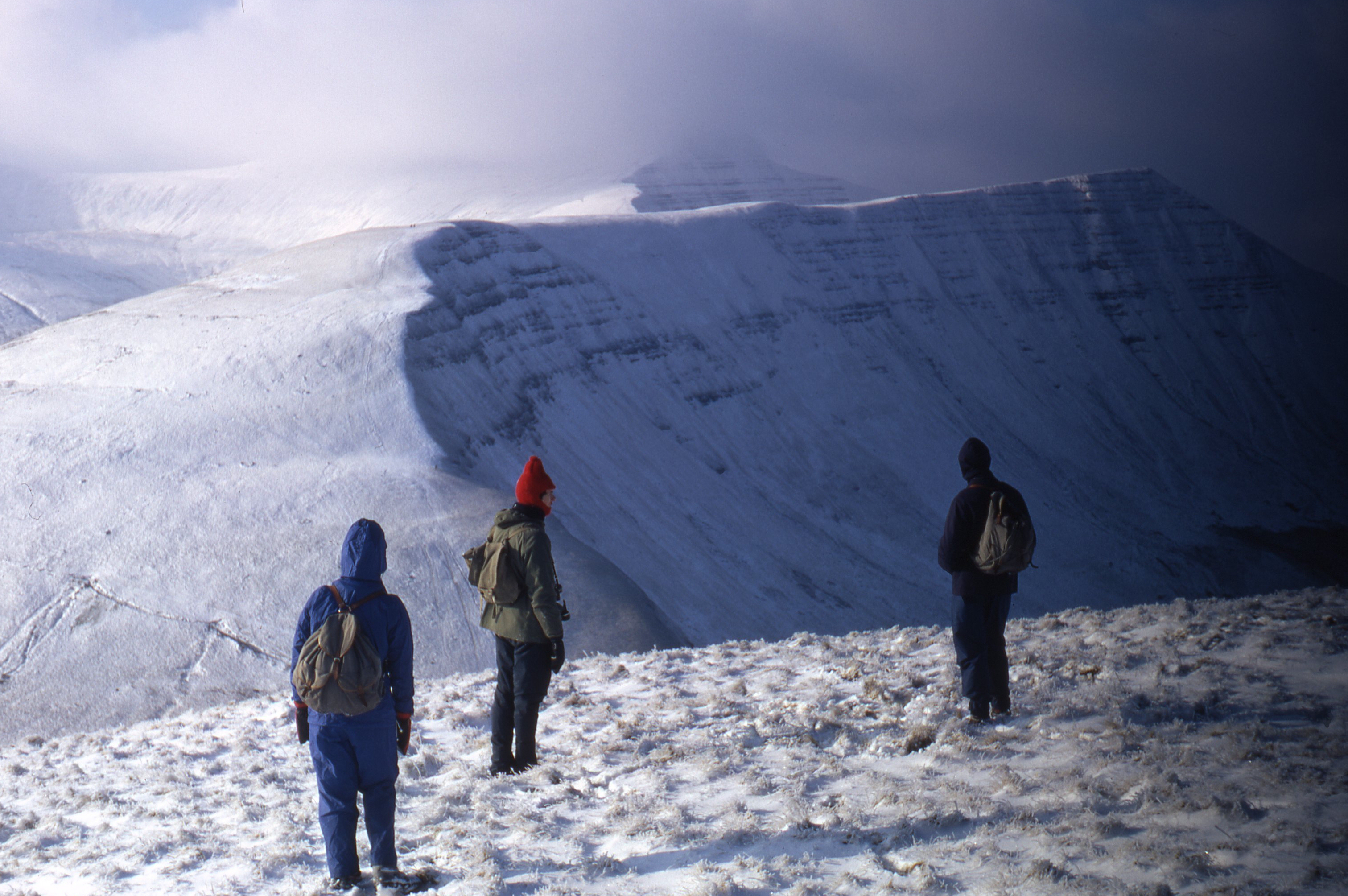 Brecon Beacons, south Wales, in the snow. I believe this view to be in the region of Pen y Fan and Cribin. Can anyone say exactly what it shows? Even though I took it I don’t remember.